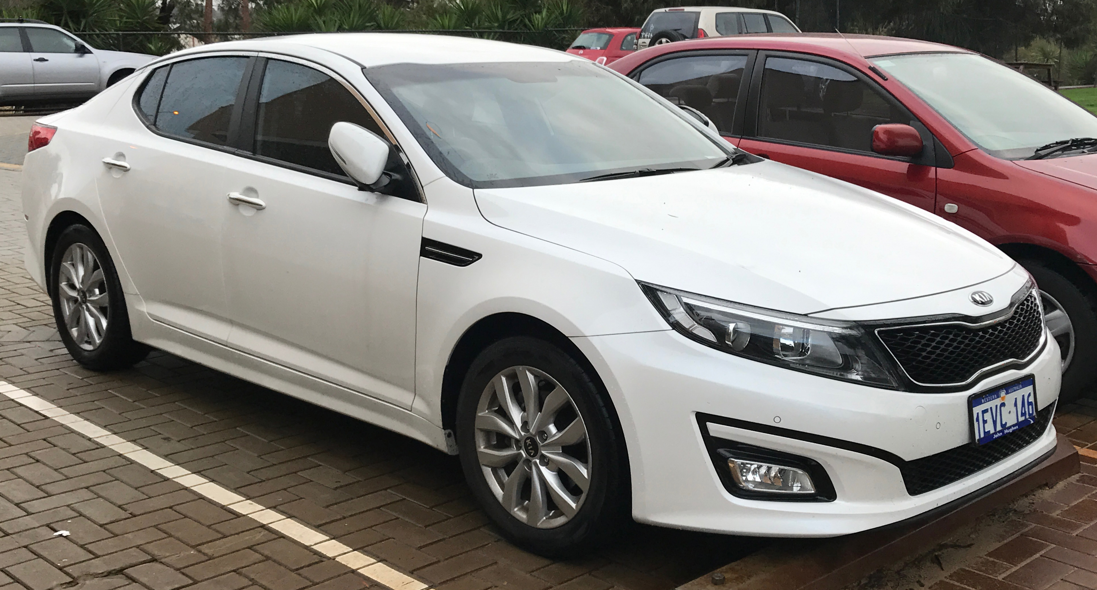 2015 Kia Optima (TF MY15) Si sedan. Photographed in Swanbourne, Western Australia, Australia.